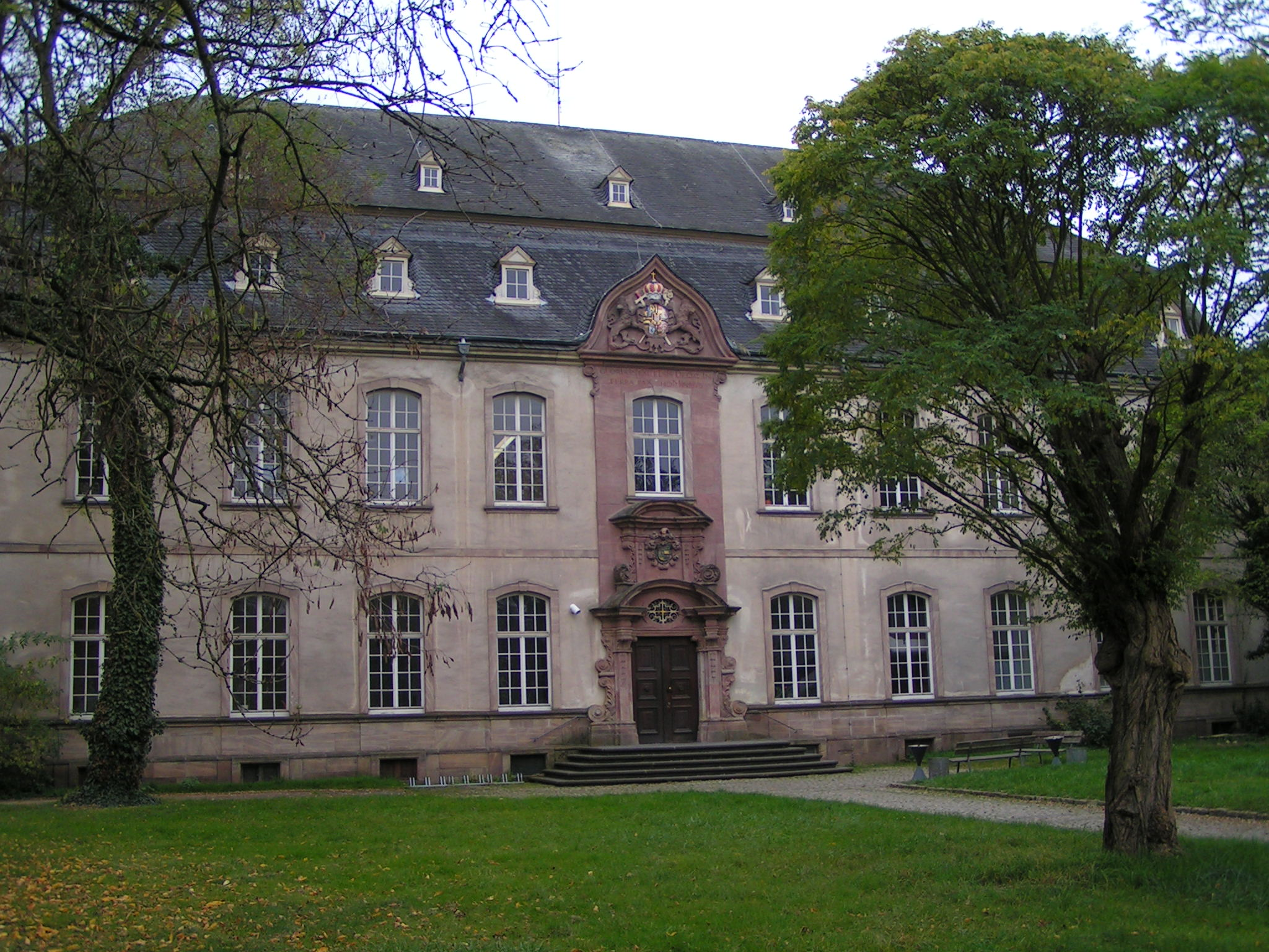 Deutschordenkommende in Trier, Rhineland-Palatinate, Germany